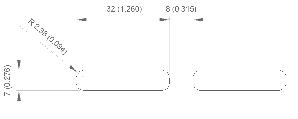 M-LOK approximate slot dimensions in millimeters and inches between brackets.